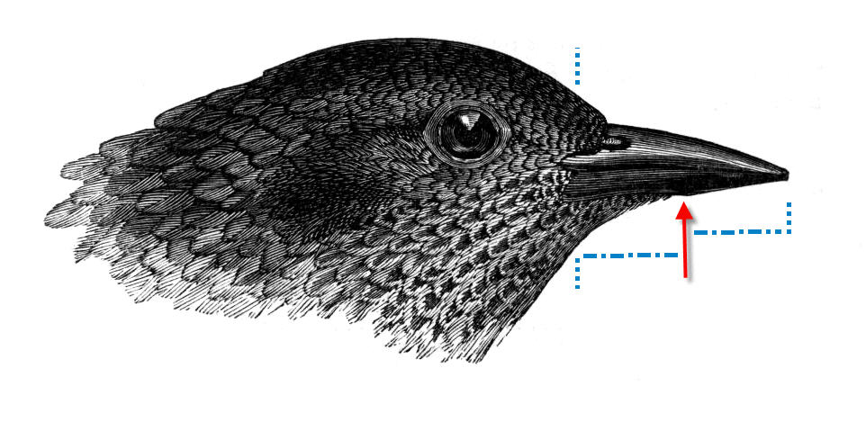 Head of Micropternus with annotations showing angle of chin